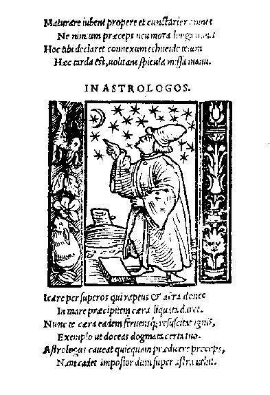 displayed in the Book of Emblems (Latin: Emblematum liber) by Andrea Alciato found in page C7 recto